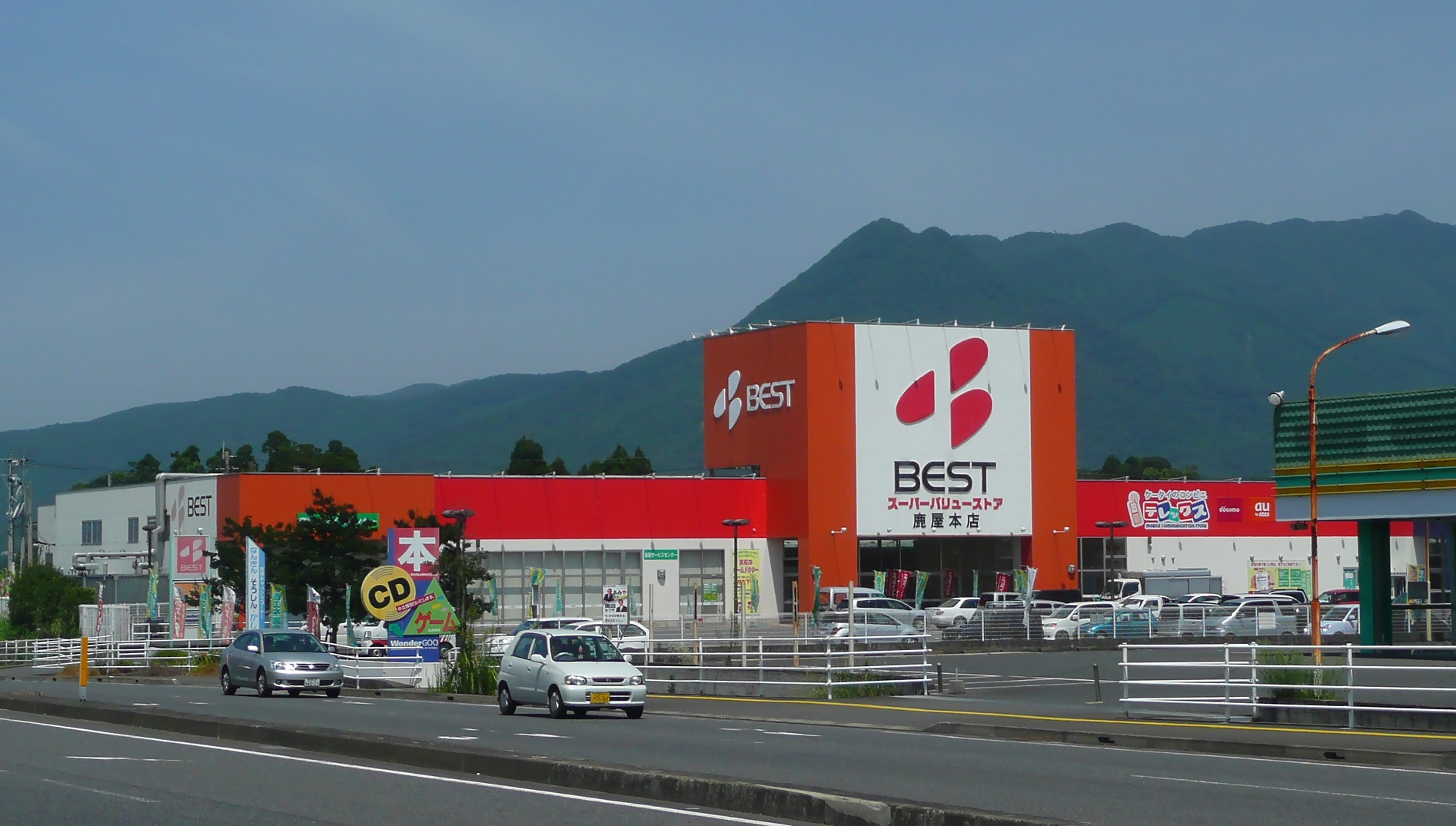 Best Denki Kanoya Store (Kanoya City, Kagoshima, Japan)